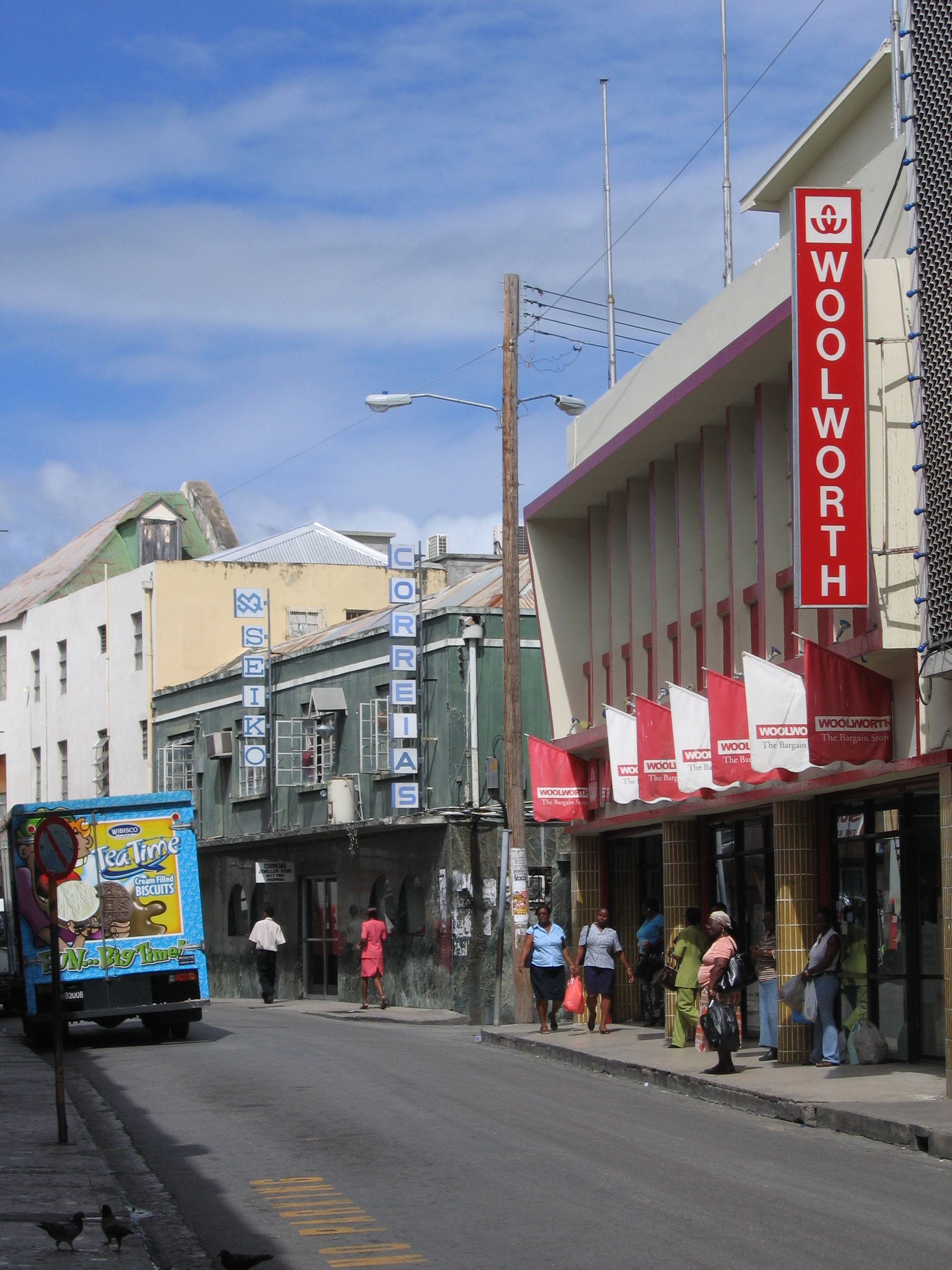 Prince William Henry Street, Bridgetown, Saint Michael, Barbados, showing F. W. Woolworth and Company (Barbados) Limited.